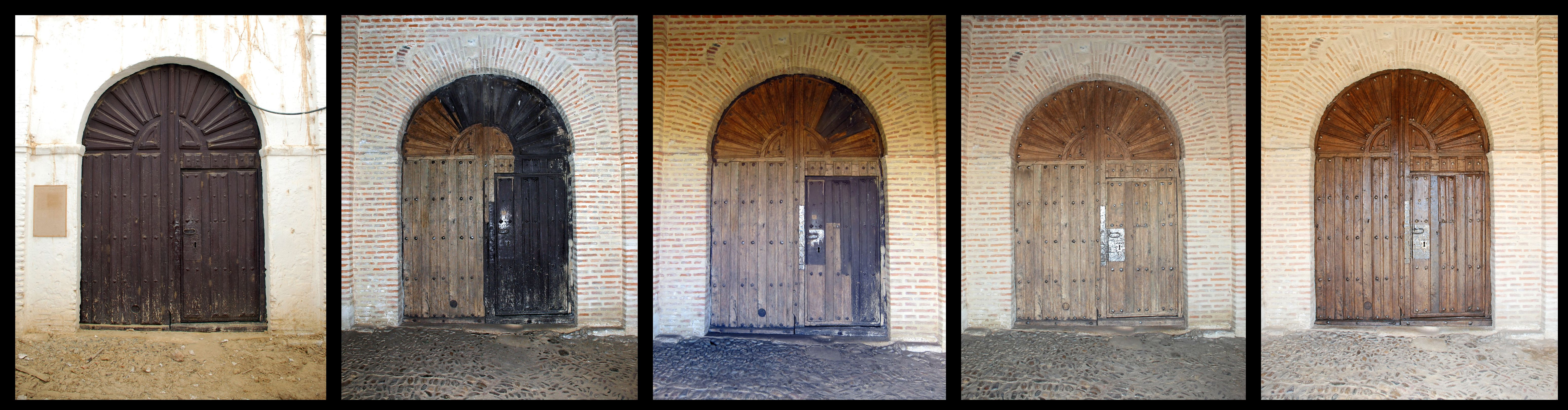 Church of the Assumption of Villamelendro de Valdavia (Palencia, Castile and León). Mounting with the sequence of the restoration of the Church door between May 17th and August 13th of 2014.